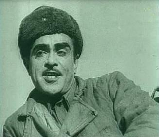 Cadre from Azerbaijani film "Bakhtiyar"